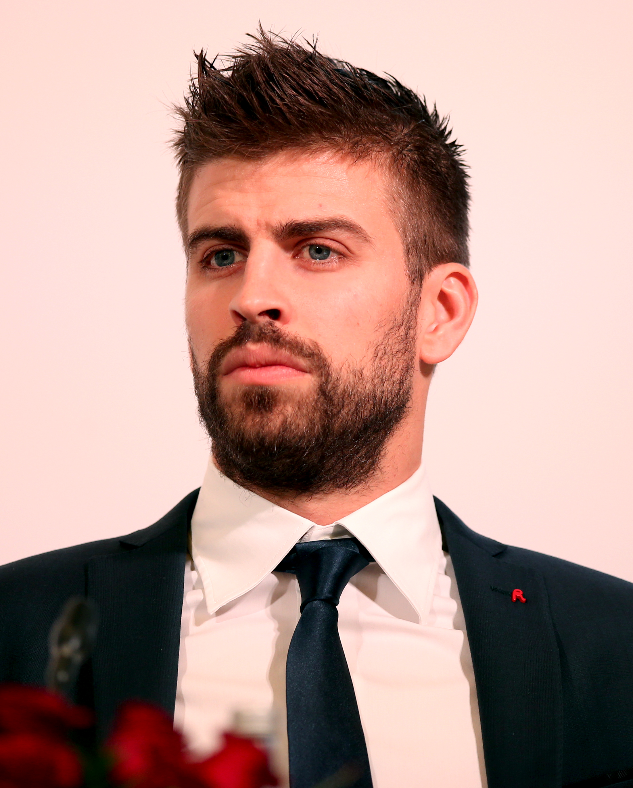 Gerard Pique at an event at Doha Stadium, Qatar in February 2015